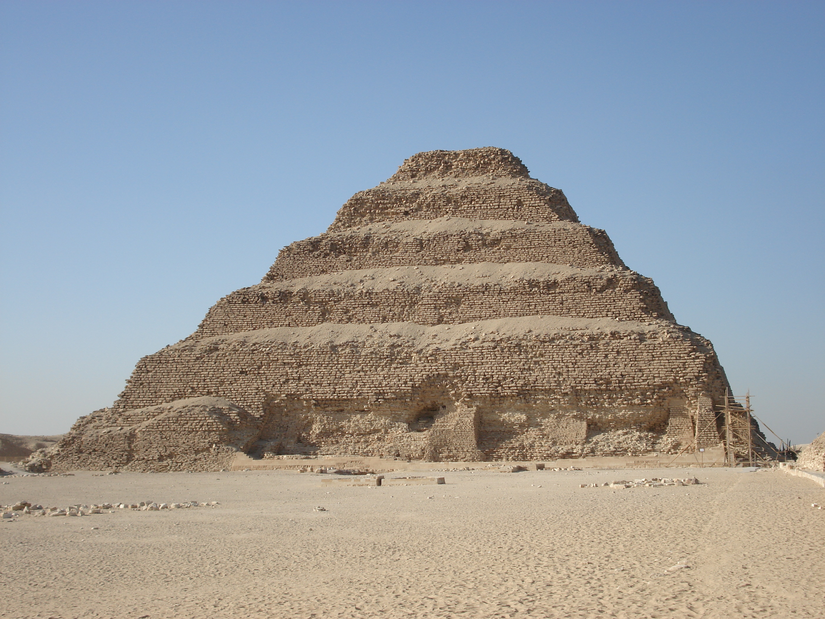 This is a photo of the Pyramid of Djoser at Saqqara